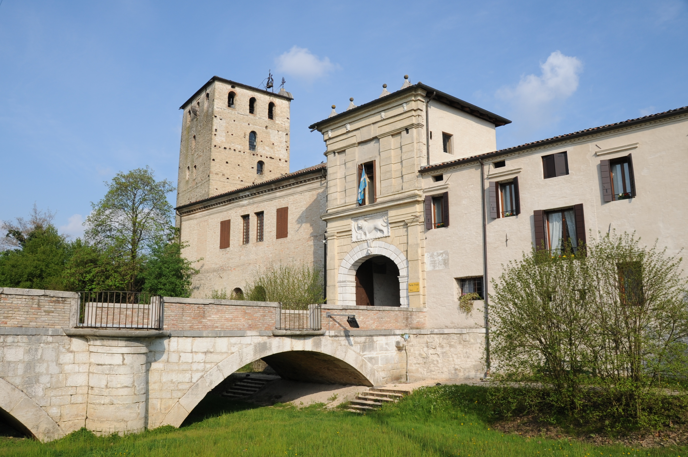 Portobuffolé, Porta Friuli